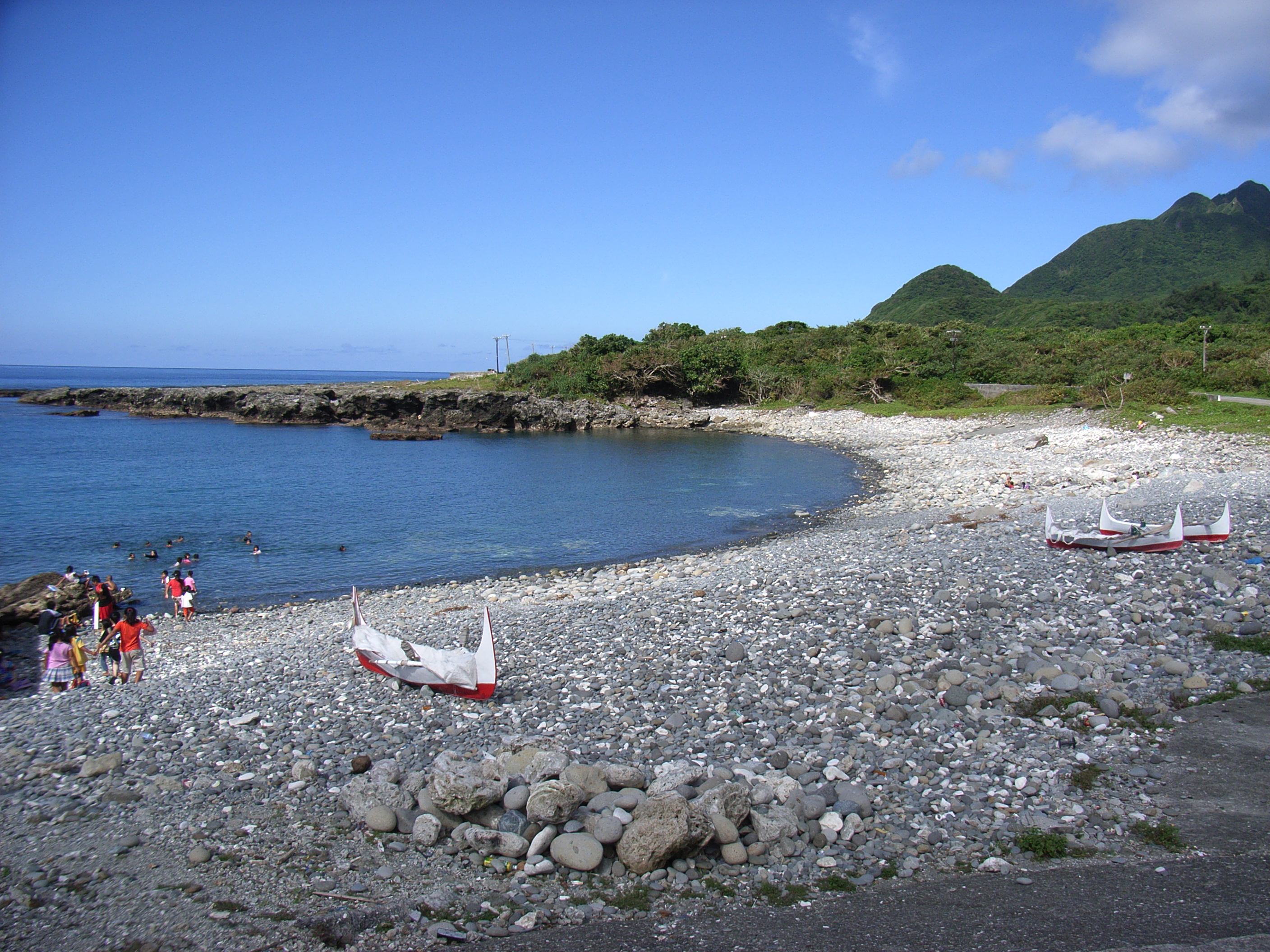 View of Langdao Beach